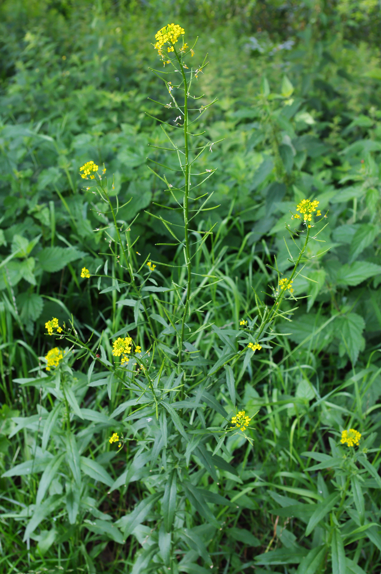 Habitus of Treacle-mustard, Erysimum cheiranthoides.